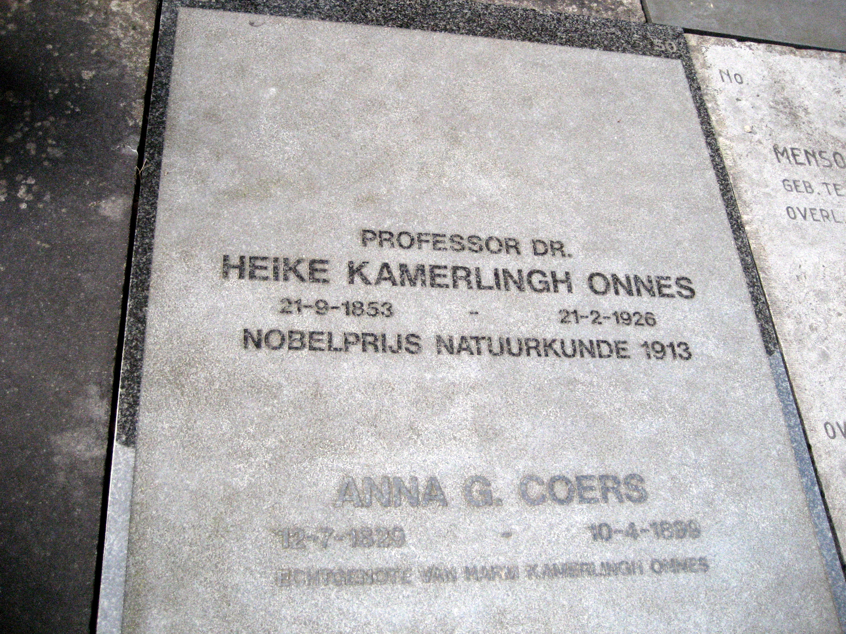 Grave of Heike Kamerlingh Onnes (1853 – 1926) in Voorschoten (The Netherlands)